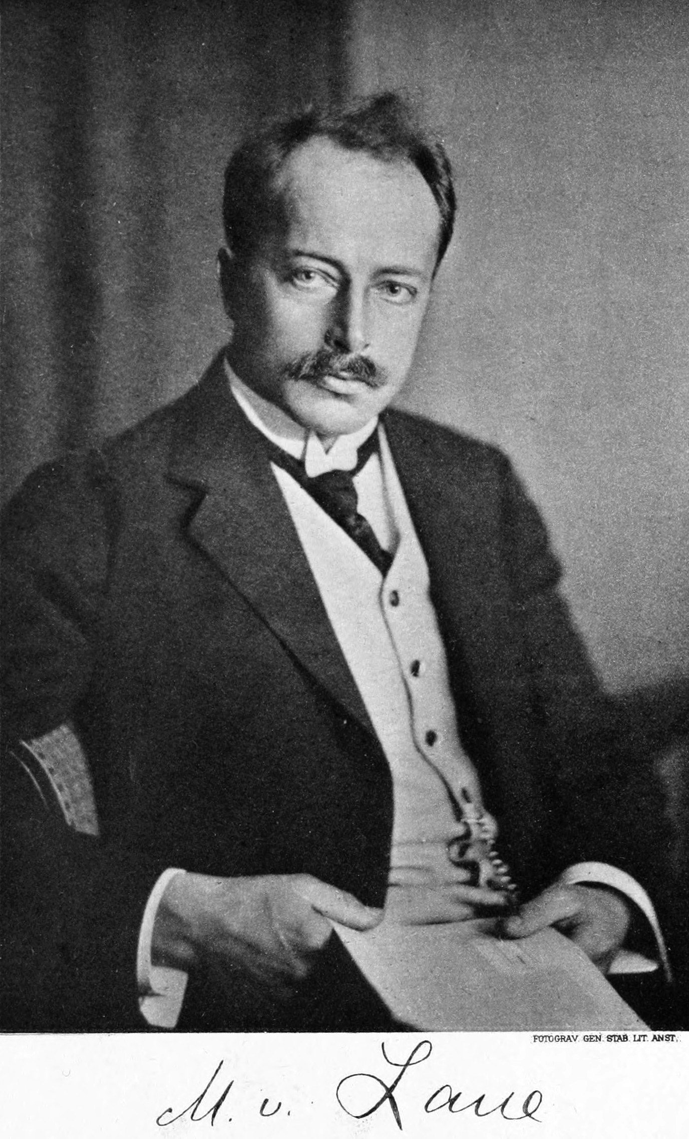 Max von Laue